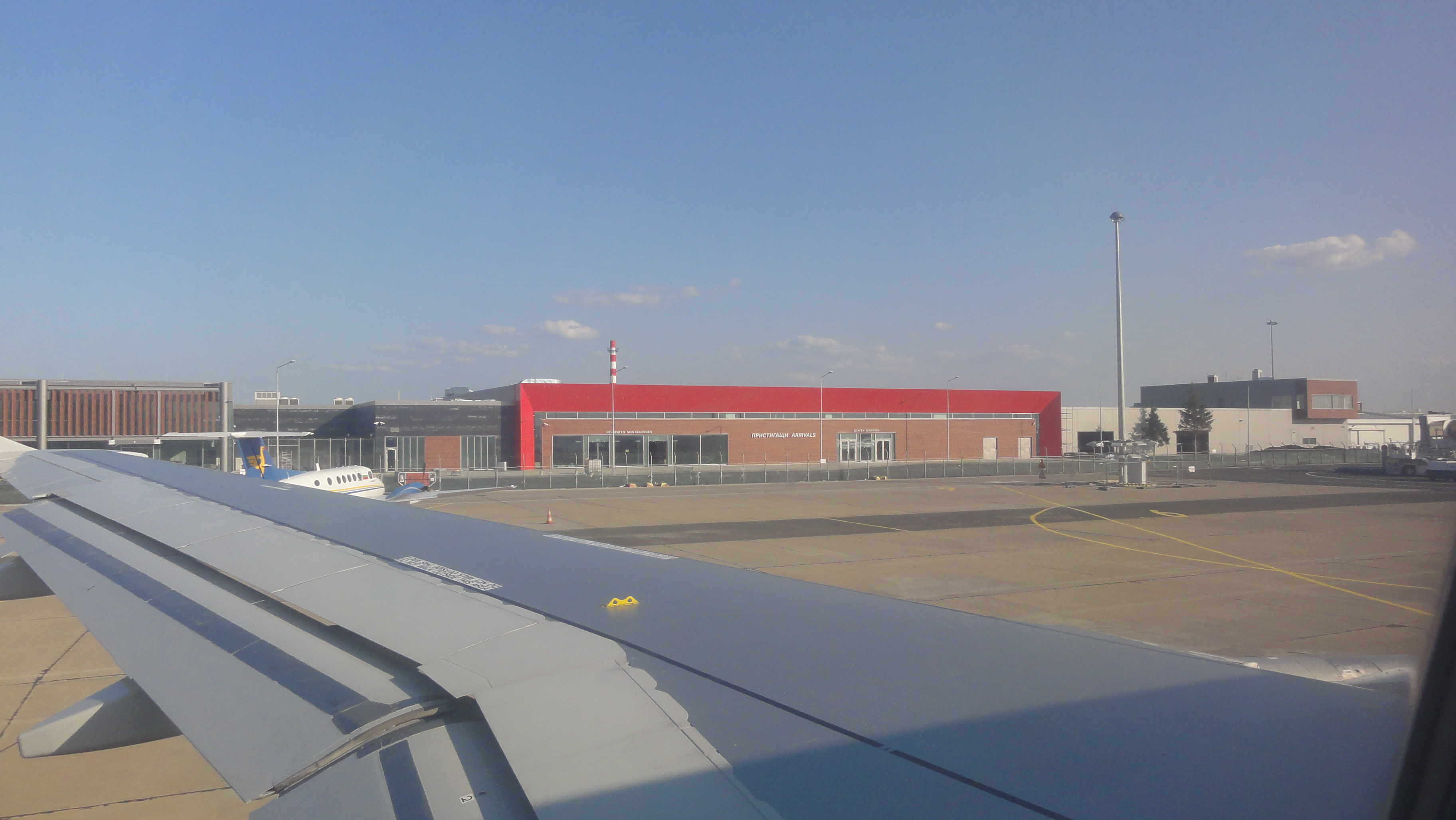 New arrivals terminal at the Bourgas Airport